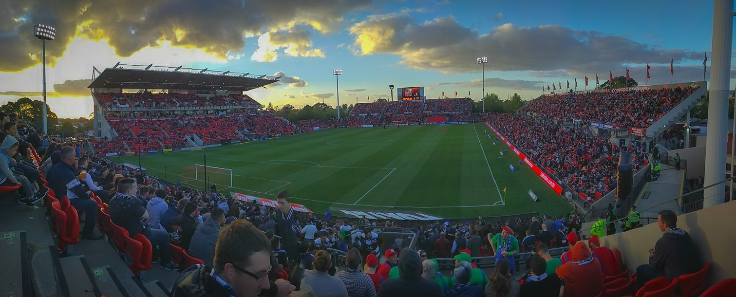 Panorama of Hindmarsh Stadium from the away end before Adelaide United v Melbourne Victory, October 2016